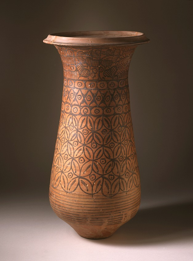 Southern Pakistan, Indus Valley Civilization, Harappan, circa 2600-2450 B.C. Furnishings; Serviceware Terracotta with black paint 19 1/2 x 10 in. (49.53 x 25.4 cm) Purchased with funds provided by Camilla Chandler Frost (AC1997.93.1) South and Southeast Asian Art